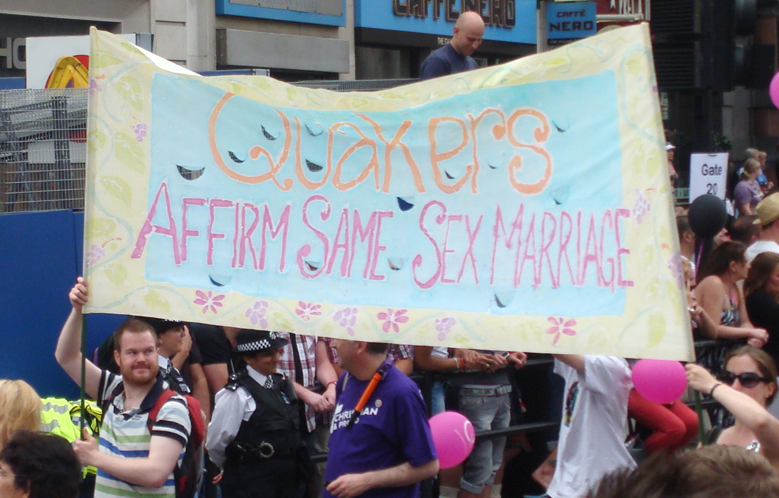 Quakers banner